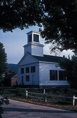 UNION CHRISTIAN CHURCH; BUILT IN 1840 AND DEDICATED AS A CONGREGATIONAL CHURCH IN 1842. IT IS IN THE GREEK REVIVAL STYLE. THE ORIGINAL IRON THRESHOLDS FOR THE FRONT DOORS WERE CAST AT TYSON FURNACE IN THE SOUTHERN PART OF THE TOWN OF PLYMOUTH.